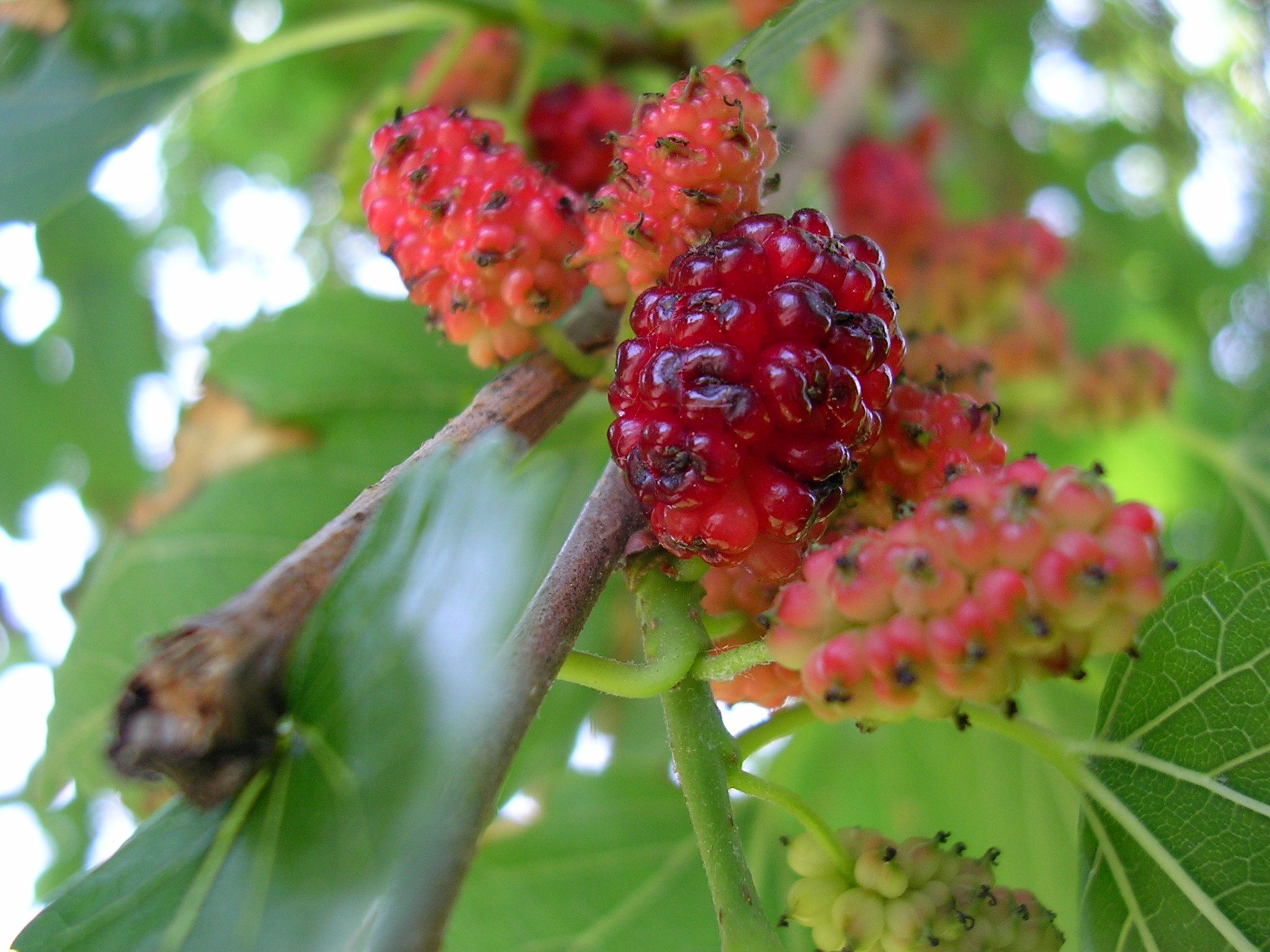 Berries of the common white mulberry tree. Photo taken with a Nikon E3200 camera. Morus nigra